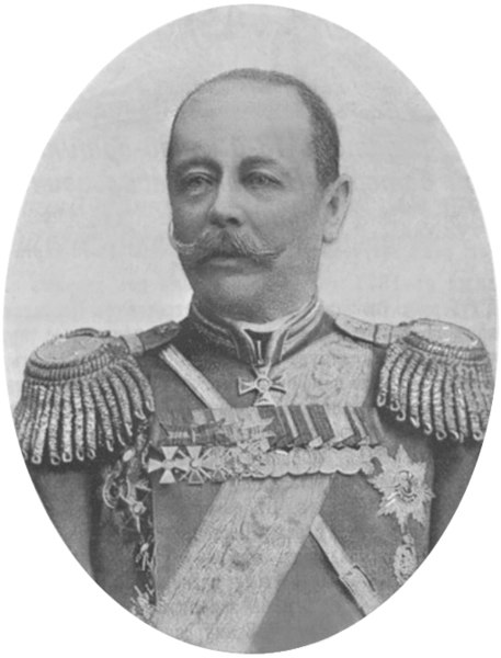 Baron Aleksander Nikolayevich Meller-Zakomelsky, Russian general of the infantry, member of the State Council.